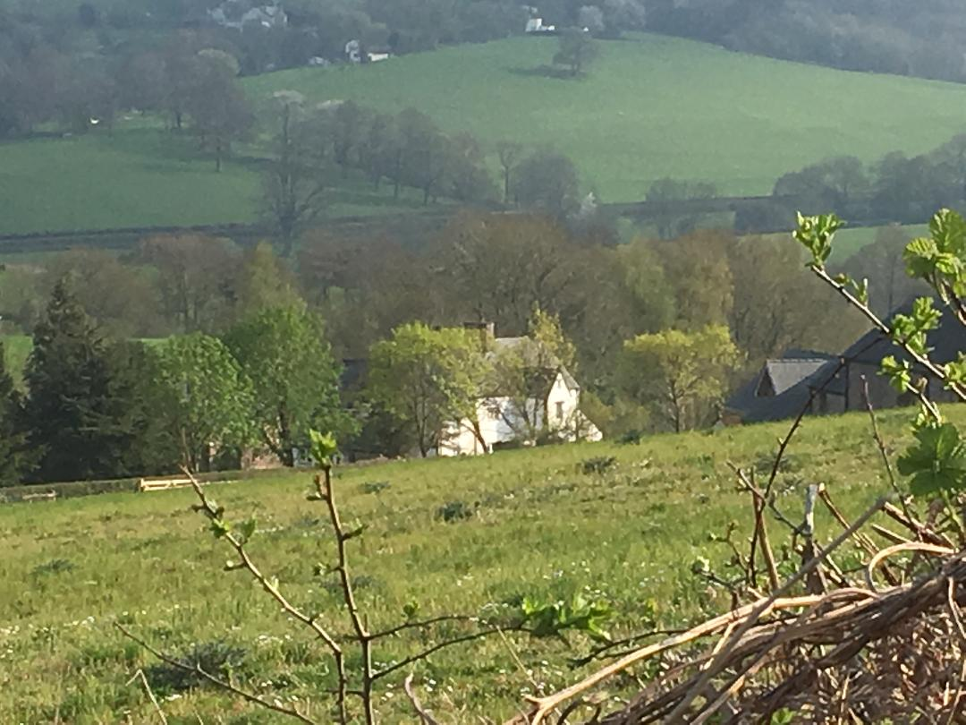 Old Trecastle Farm, Pen-Y-Clawdd